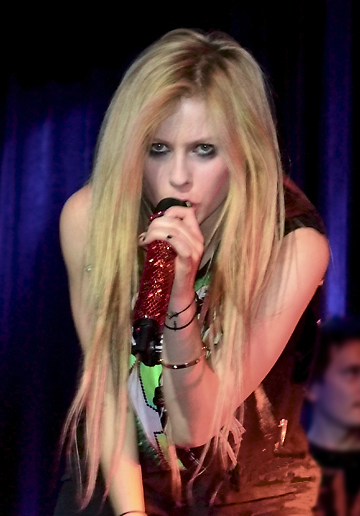 Avril Lavigne singing during the Brazil leg of her Black Star Tour on August 2, 2011. Concert venue was the Marista Hall in Belo Horizonte.